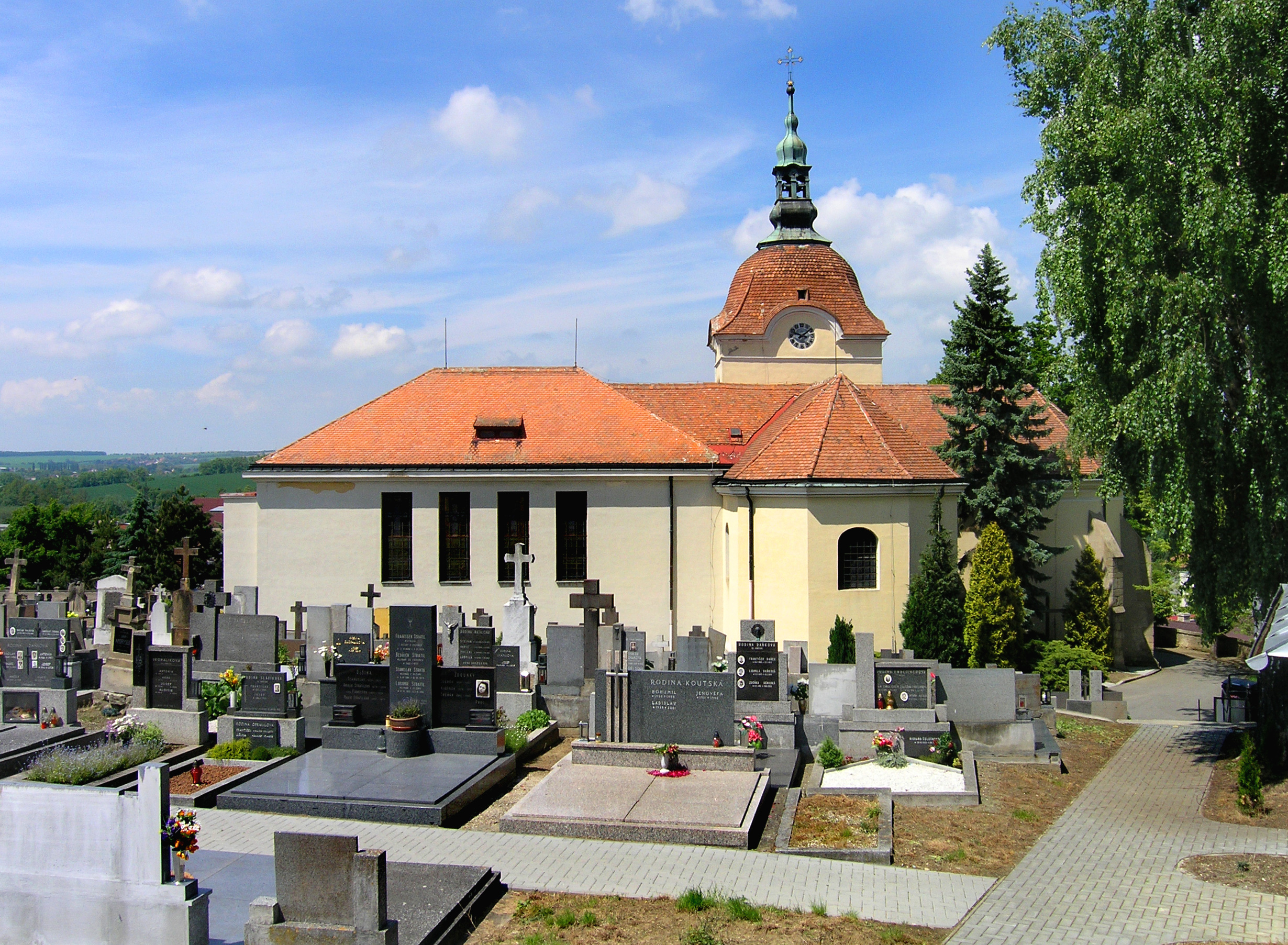 Church in Zdounky village, Czech Republic